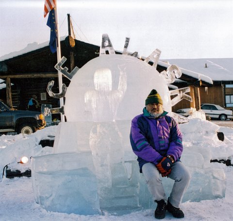 Abel Ramírez Águilarabelmex.com with ice sculpture that he created with Anita Tabor at World Ice Art Championships of 1996